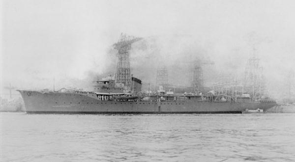 Japanese Minelayer Aotaka, under construction at Harima Shipyard.